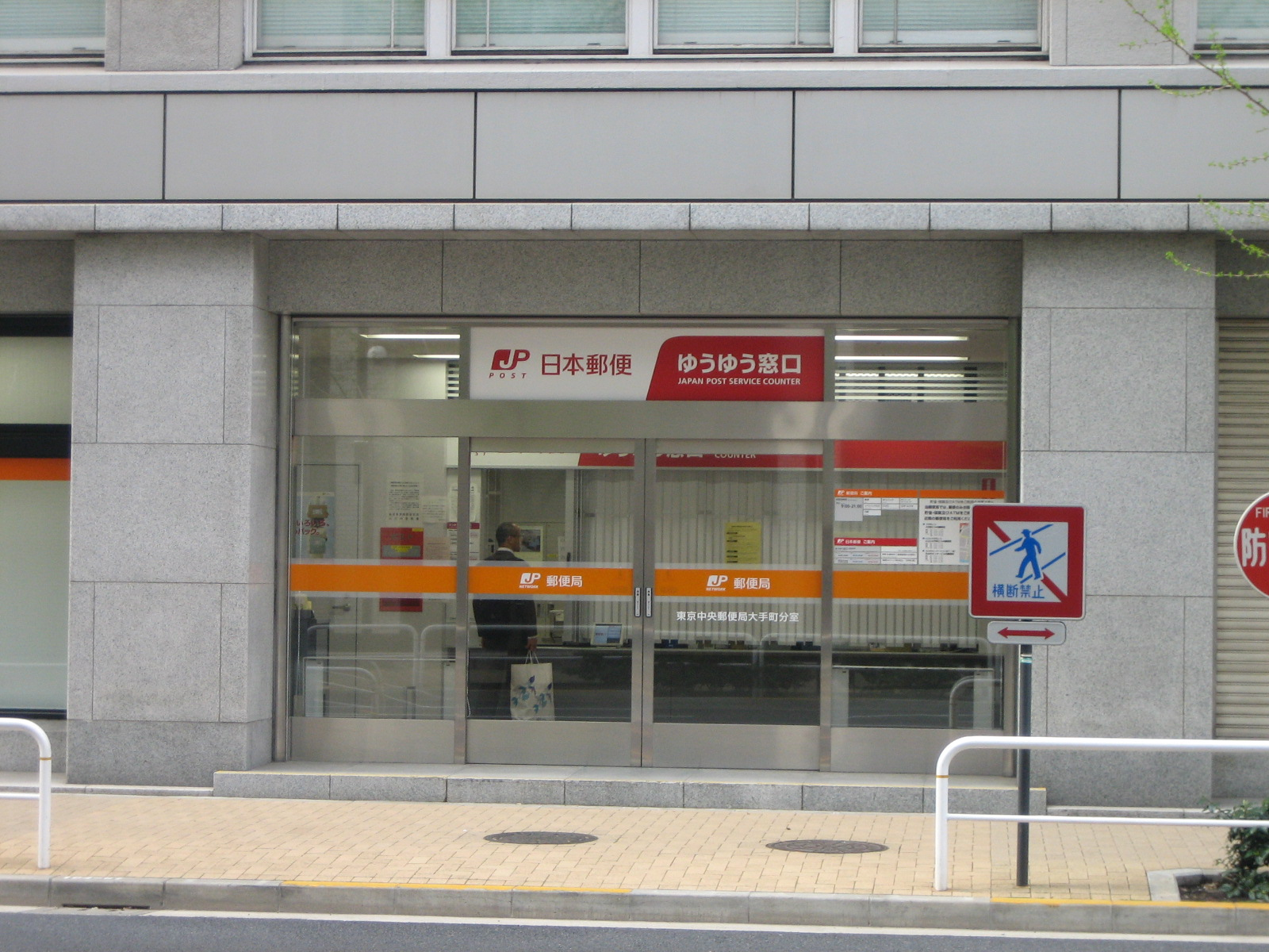 Tokyo central post office otemachi branch